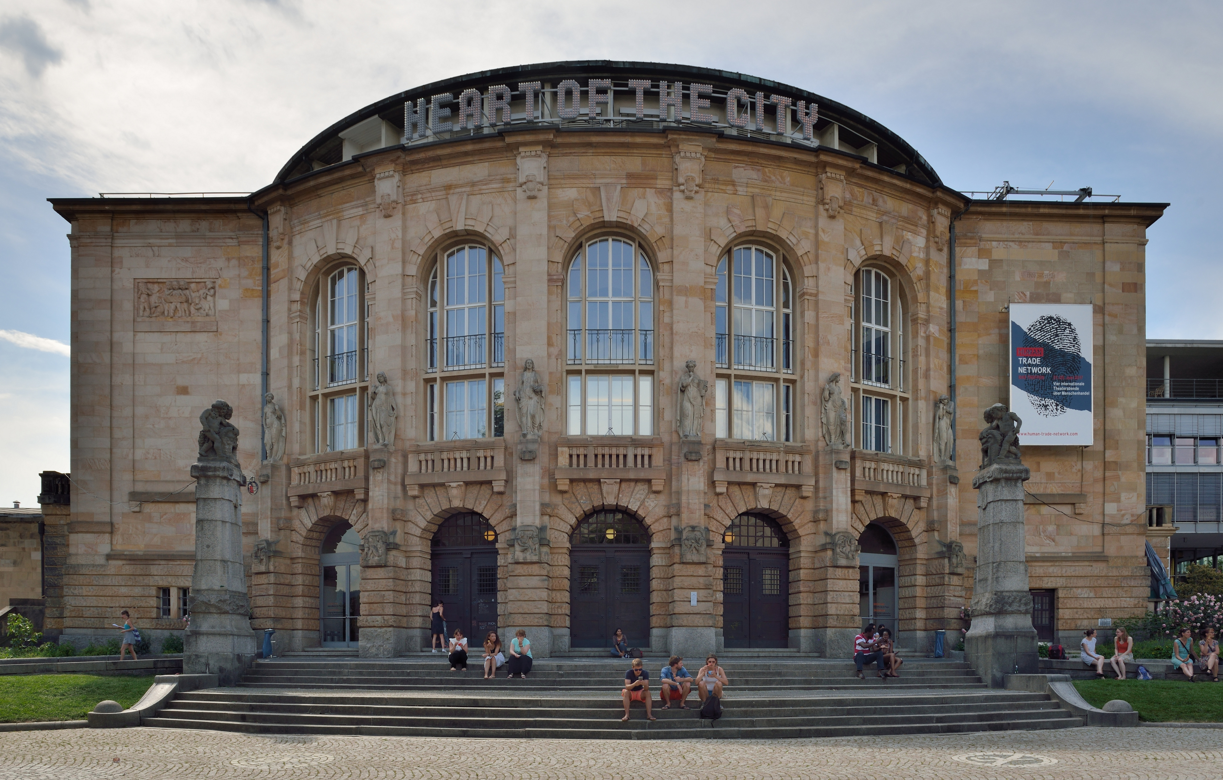 Freiburg: theater